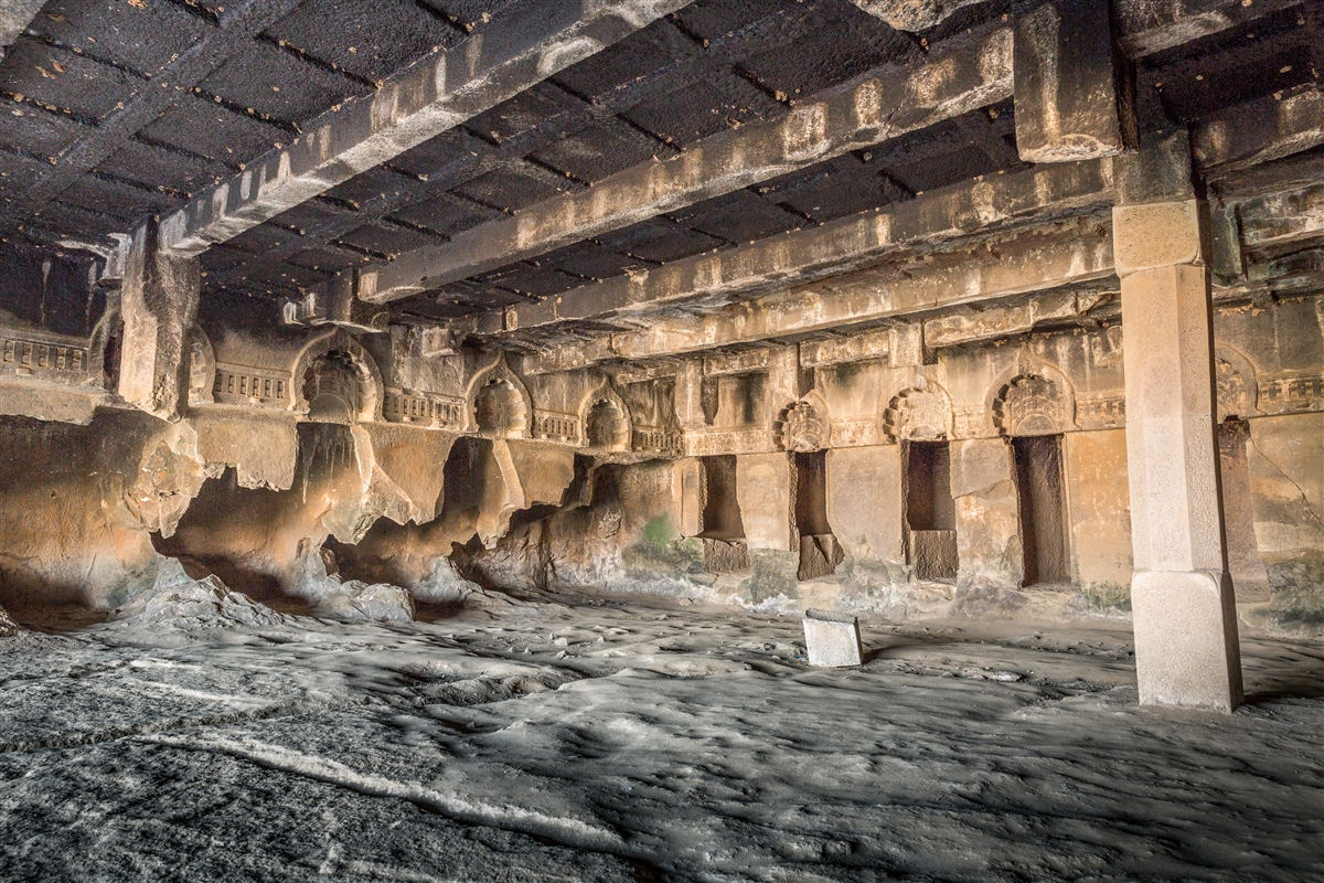 Kondana Vihara